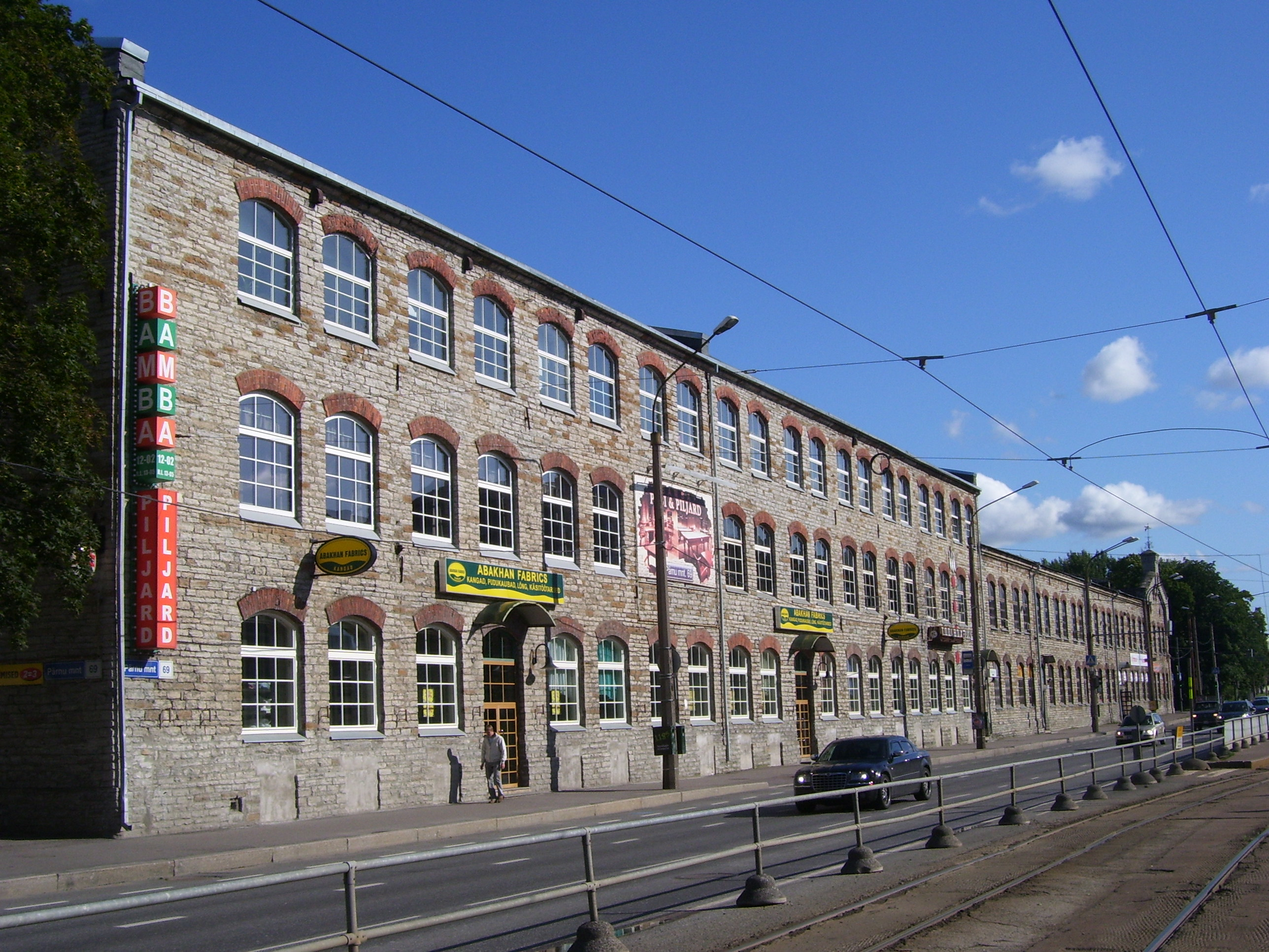 The quarter of Veerenni, Tallinn, Estonia. Former plywood anf furniture factory.